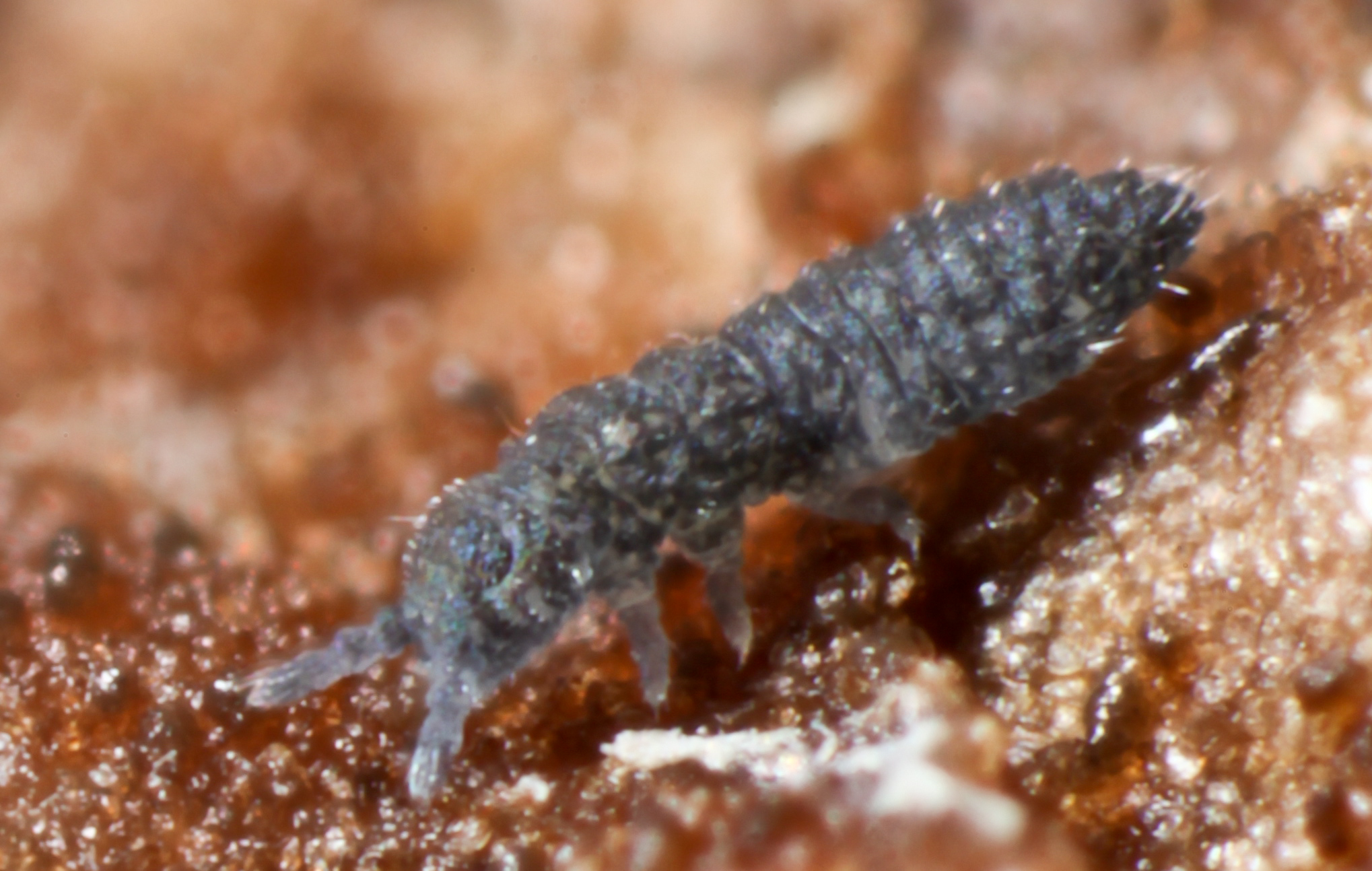 Xenylla grisea from the UK.